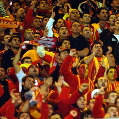 Galatasaray fans on a soccer match